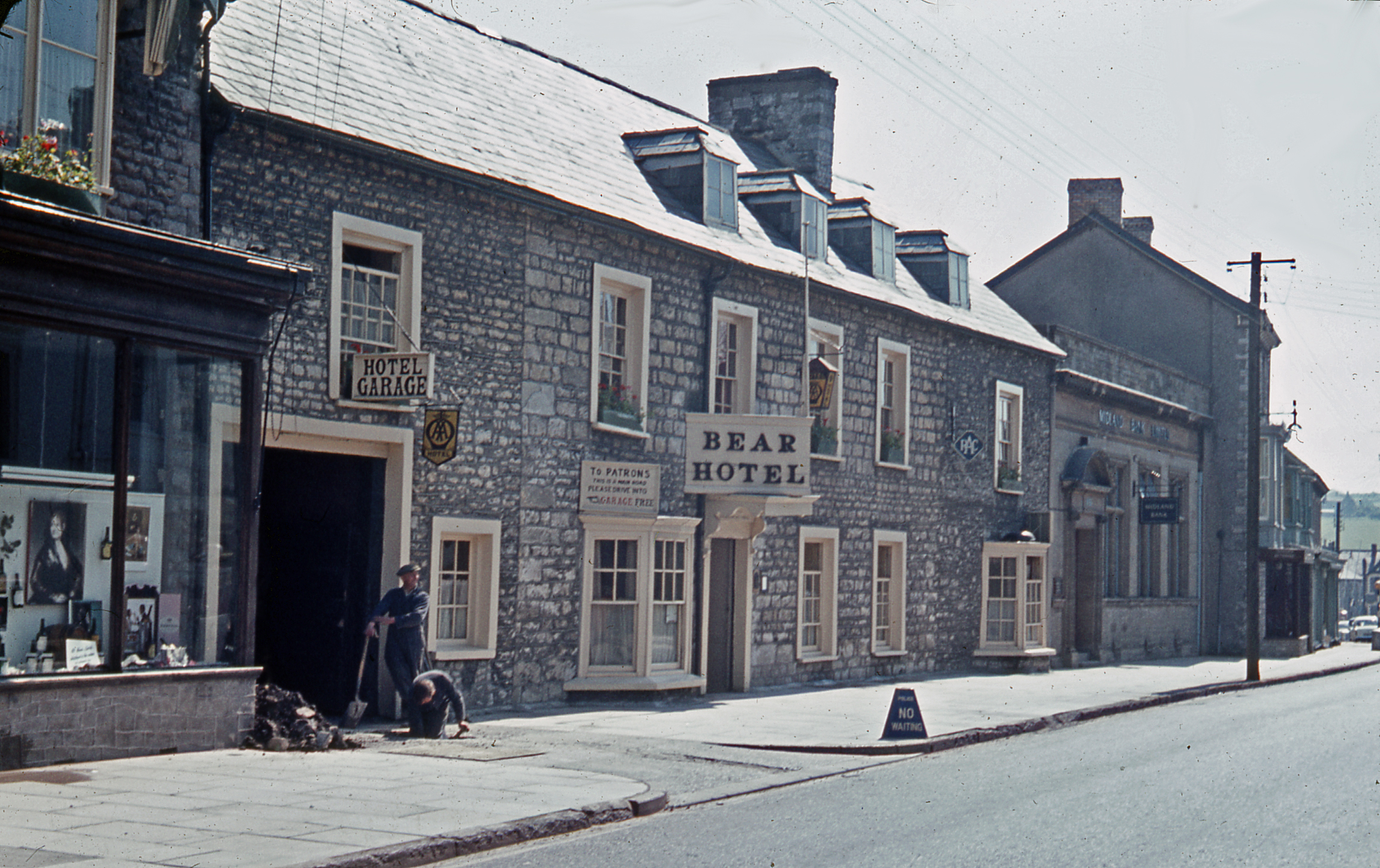 Cowbridge: Bear Hotel in High Street, 1962. View westward on A48 - pre-M4, of course.